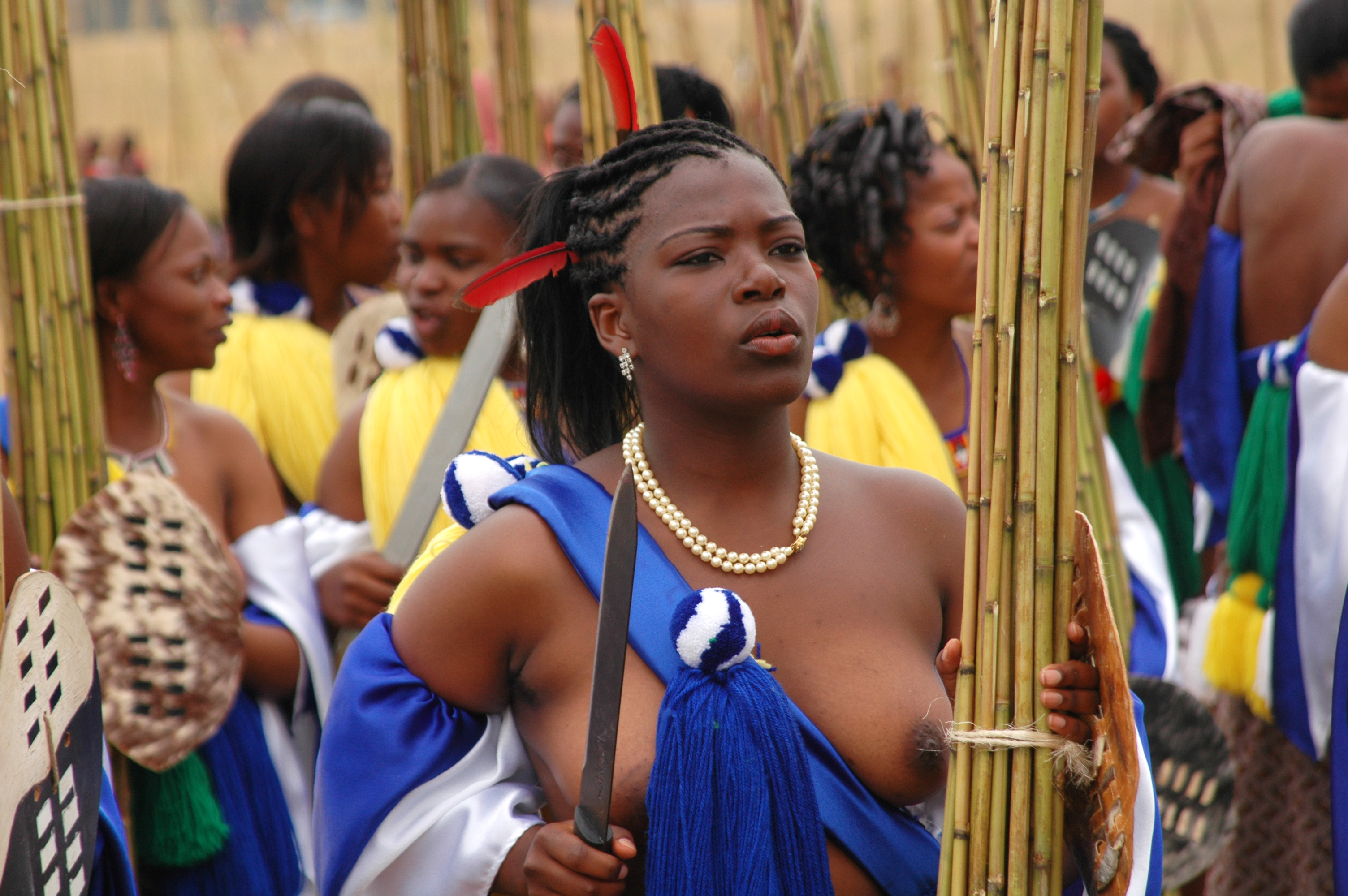 The Reed Dance Festival 2006